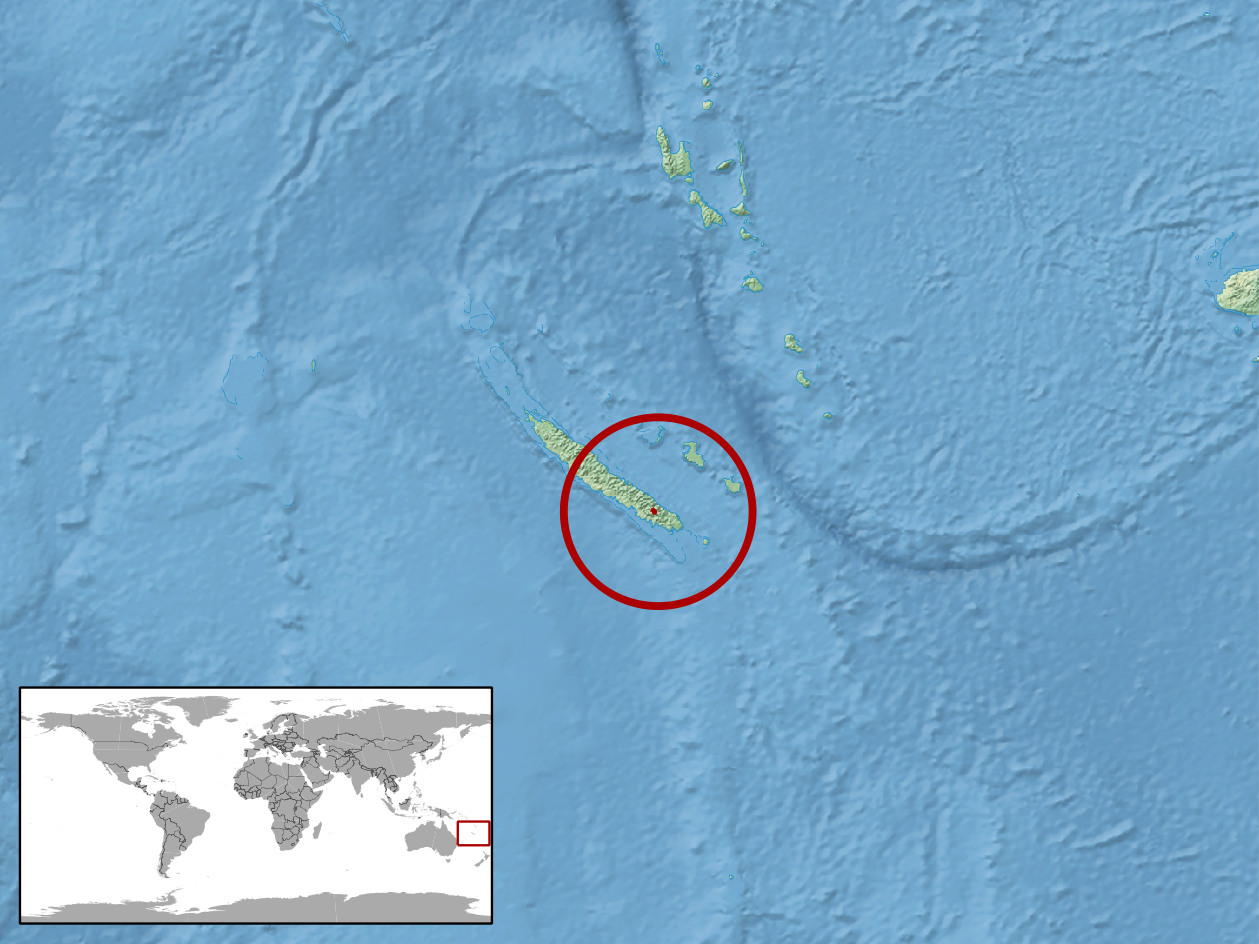 geographic distribution of Marmorosphax montana